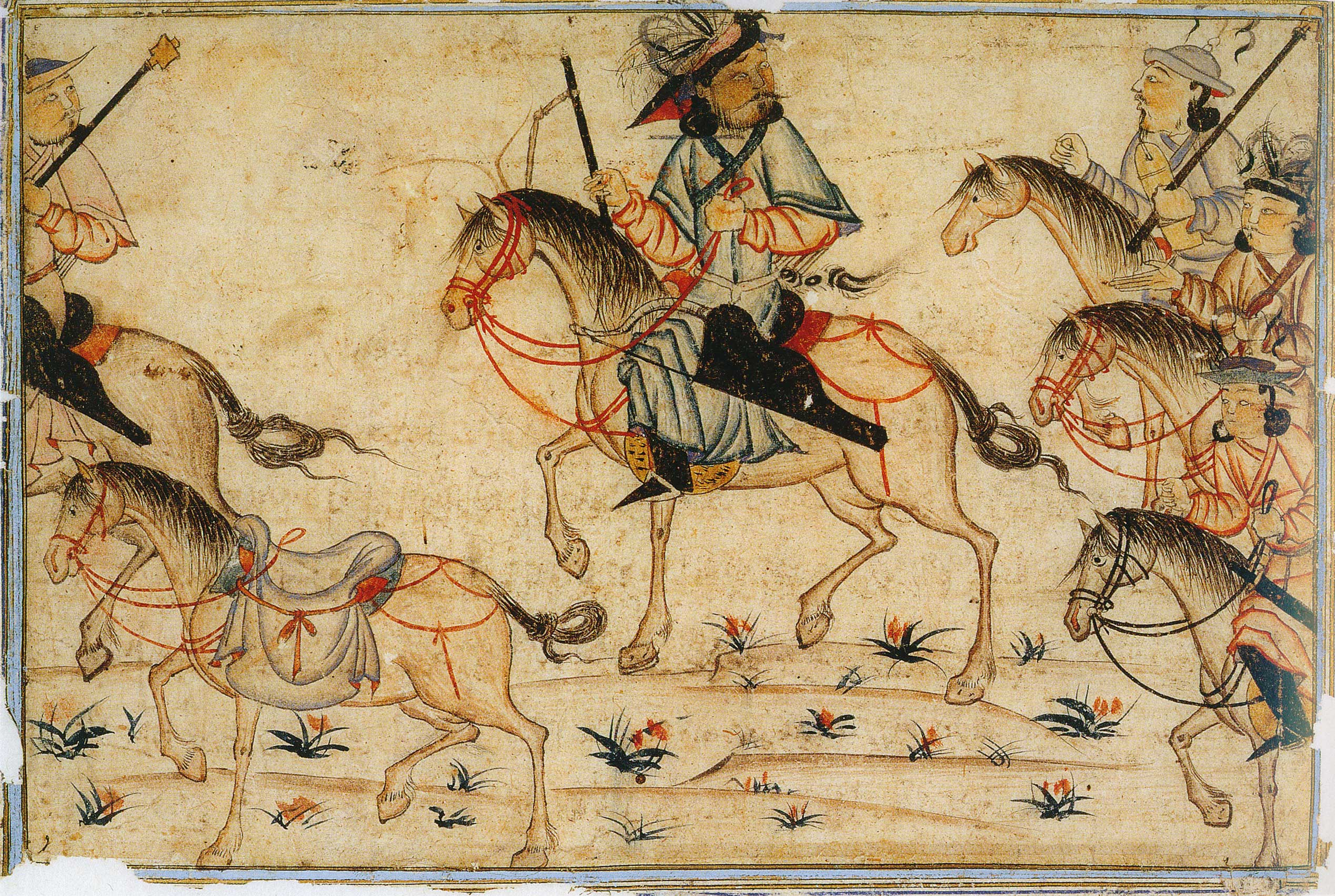 A lord travelling. Illustration of Rashid-ad-Din's Gami' at-tawarih. Tabriz (?), 1st quarter of 14th century. Water colours on paper. Original size: 18.2 cm x 26 cm. Staatsbibliothek Berlin, Orientabteilung, Diez A fol. 71, p. 53. The riders on the upper right carries a paiza, a sign that identifies his bearer as on official mission.